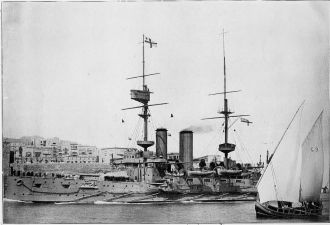 Photograph of British pre-Dreadnought battleship HMS Implacable. The sails of the dhows on the right indicate the ship is in Middle Eastern waters of the Mediterranean, possibly during the Gallipoli campaign. To be precise, the photo is taken in Malta, the lateen rigged boat is a Luzzu, used for ferrying cargo to the sister islands. The bastions in the back ground behind Implacable are the fortifications surrounding Valletta.